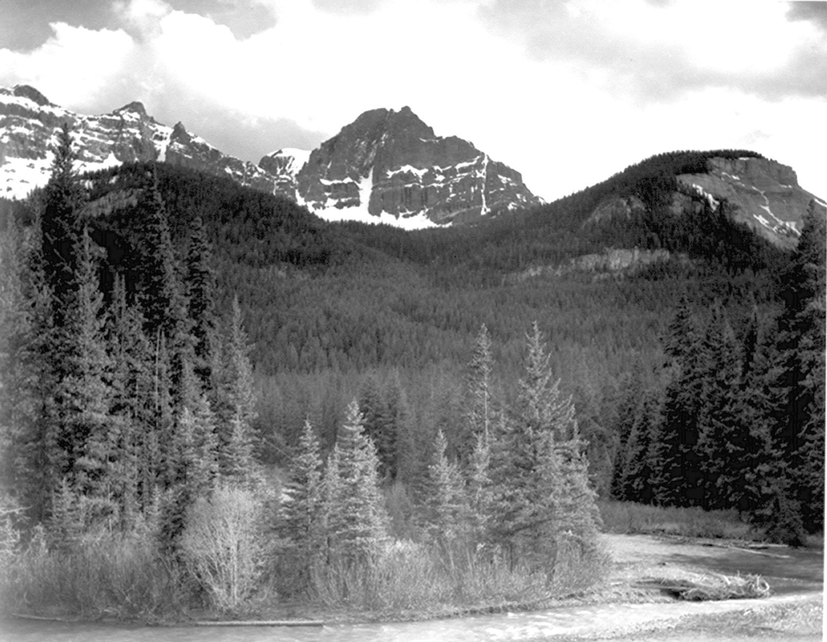 79-AAT-8 "Mountains - N.E. Portion, Yellowstone National Park," stream at bottom, trees, snow on mountains. Yellowstone 1942, Ansel Adams -May need an ultra high resolution scan to do justice to this print -Mak 03:53, 4 April 2006 (UTC)